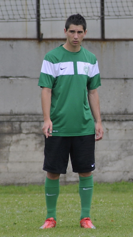 András Gárdos, Hungarian association football player